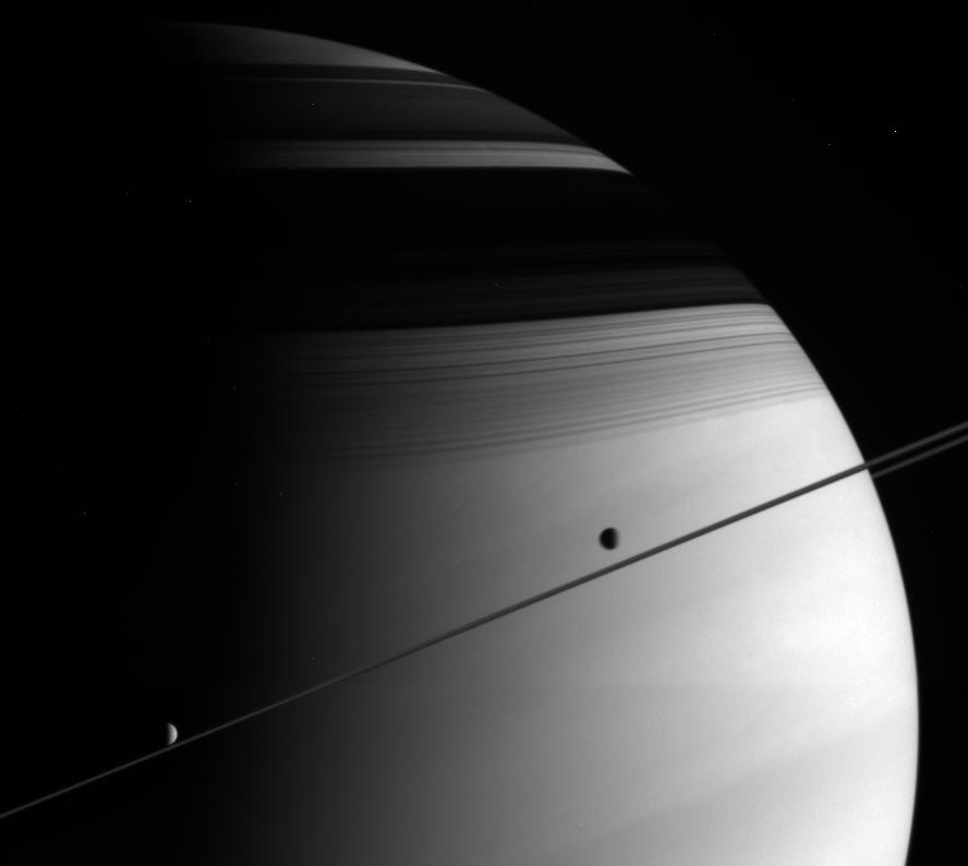 A composite of two photos taken May 5th, 2005 - of Dione and Enceladus Courtesy NASA/JPL-Caltech